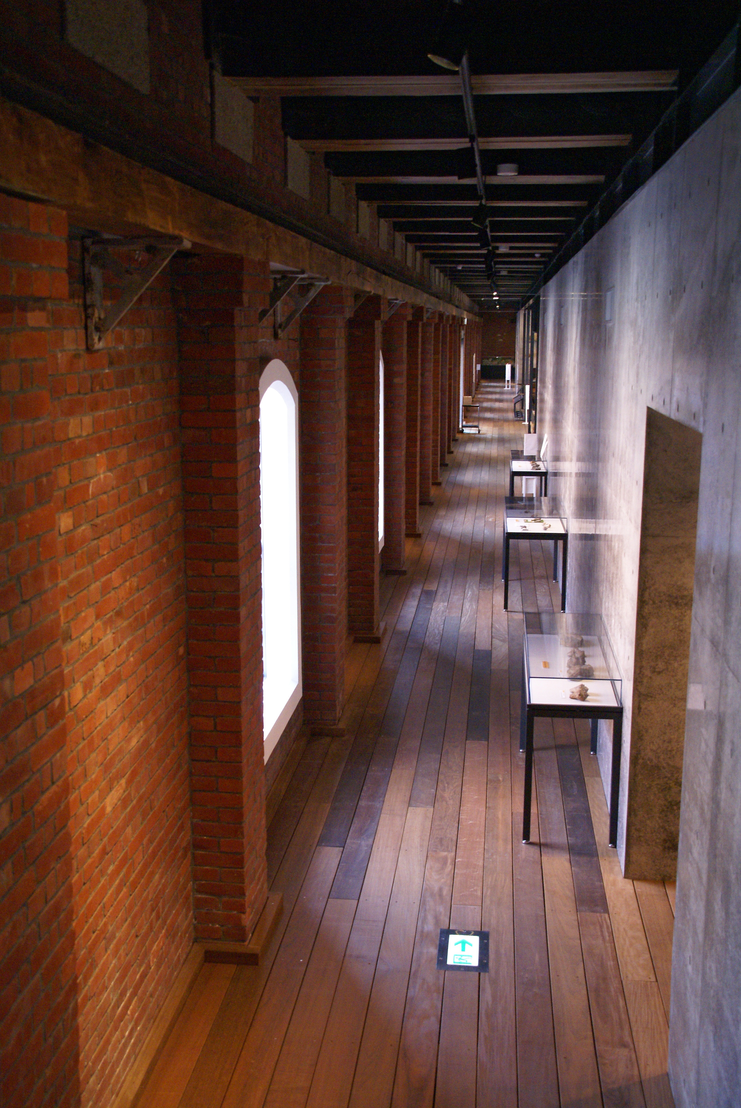 Maizuru Chiegura in Maizuru, Kyoto prefecture, Japan